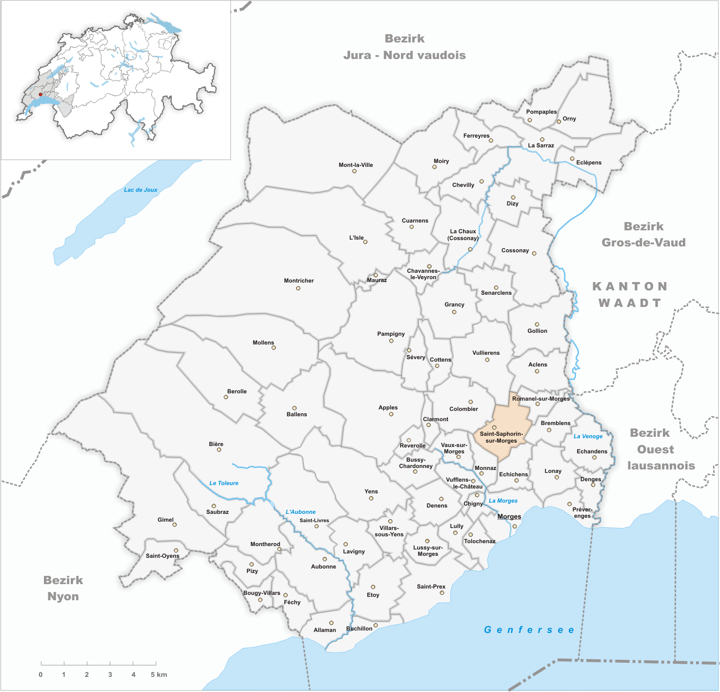 Municipality Saint-Saphorin-sur-Morges